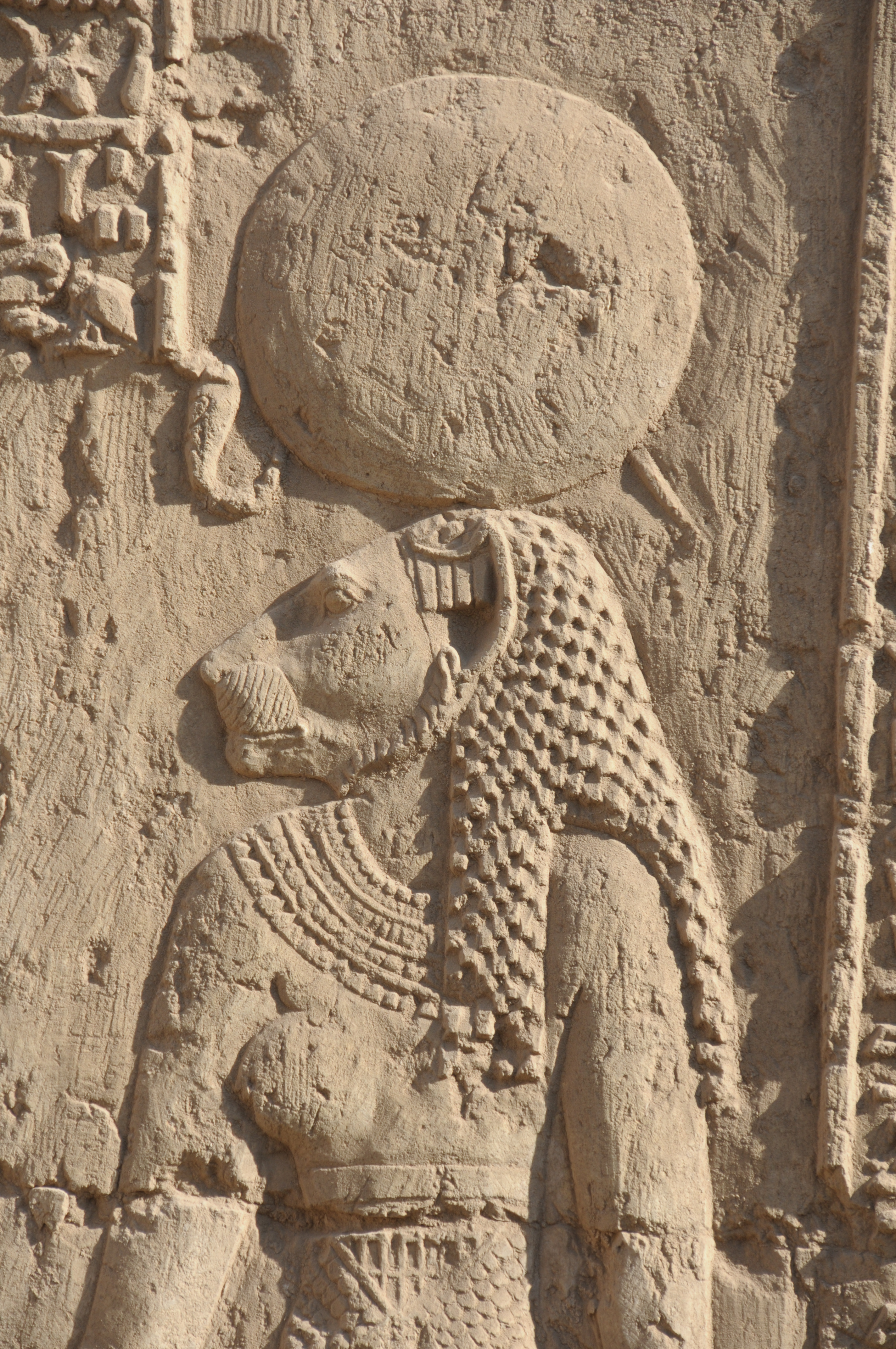 Relief of the goddess Repit (room E4) in the Athribis temple in Sohag, Egypt